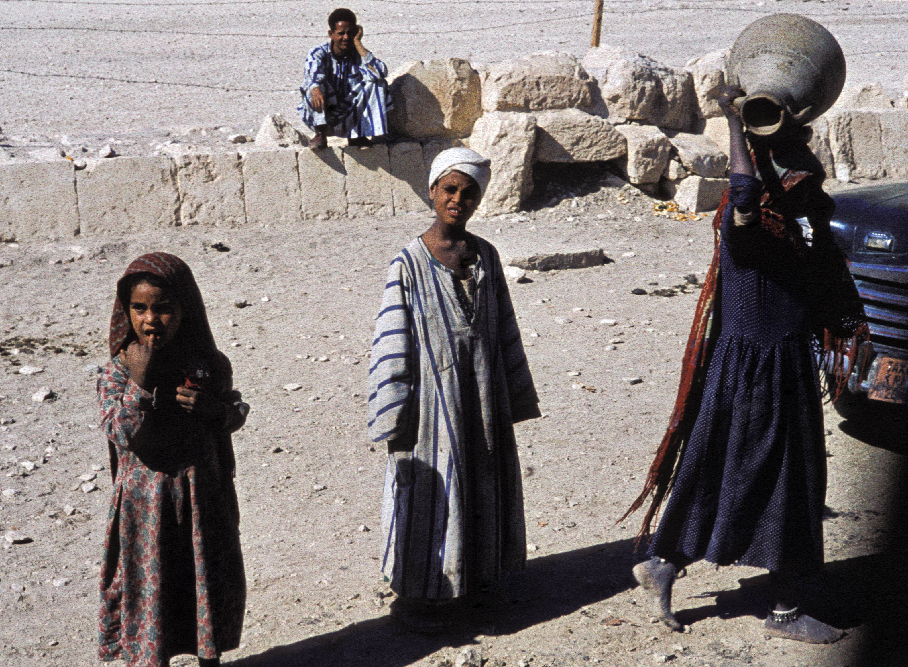 1959 in Egypt, locality unknown